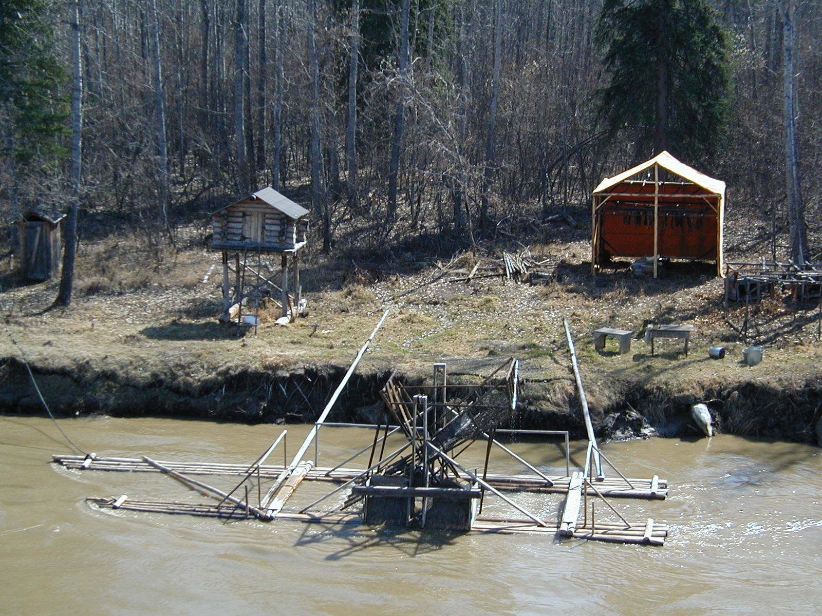 Aboard Sternwheeler Discovery on the Chena River, Fairbanks